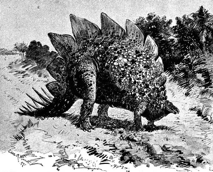 Strange Creatures of the Past Stegosaurus ungulatus.